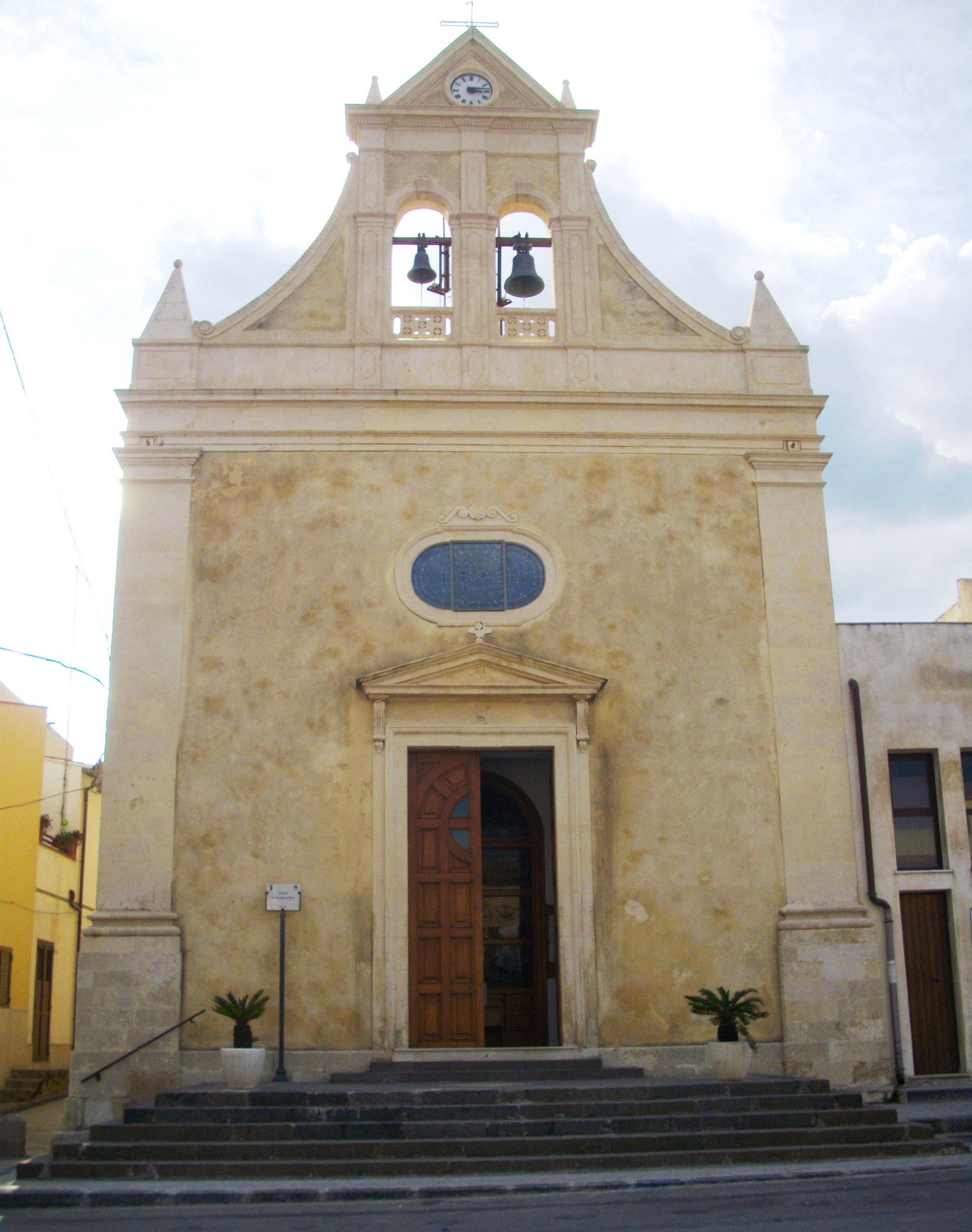 Facade of the church of Saint Nicholas in Brucoli (Augusta, Sicily) - 19th century